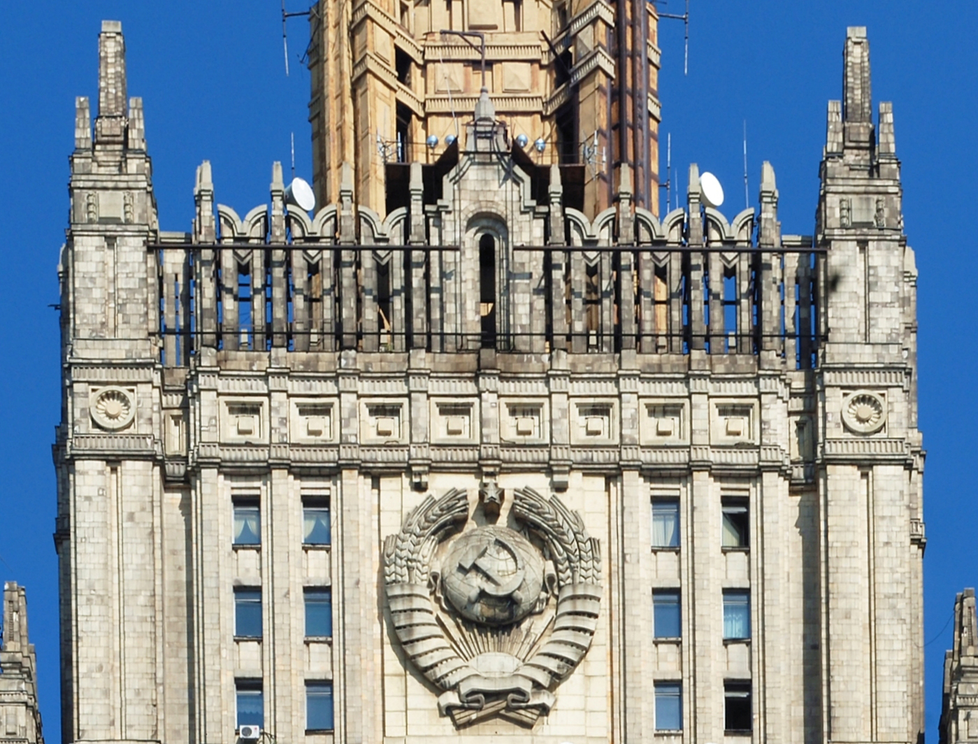 Soviet coat of arms on the building of Ministry of Foreign Affairs of the Russian Federation.